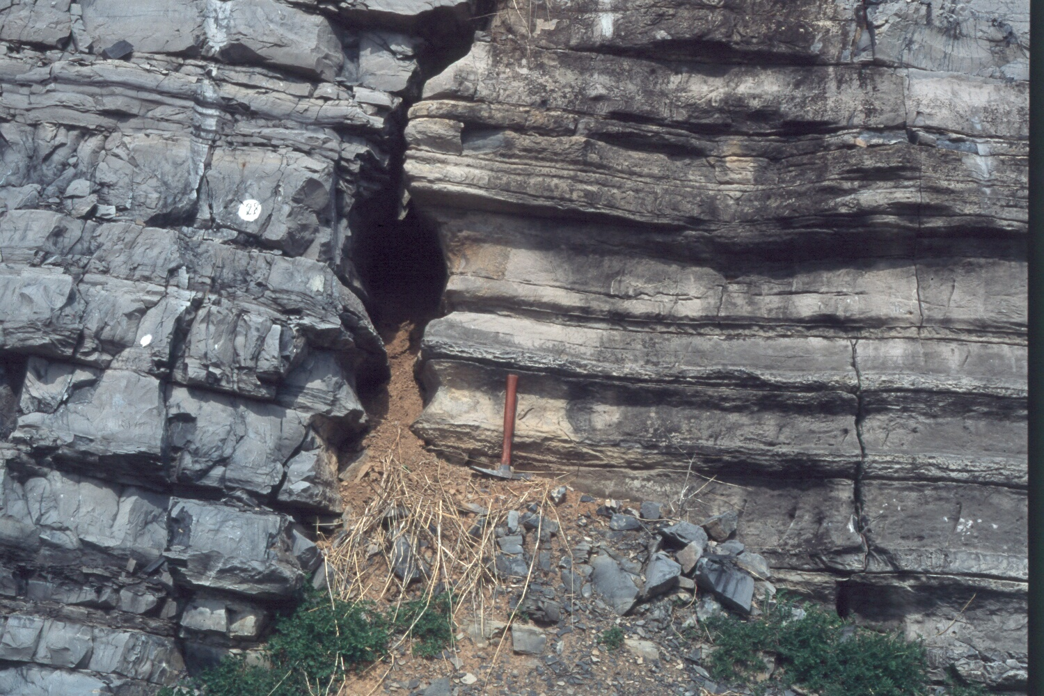 Comparison of unweathered (left) and weathered Ordovician limestone at a roadcut on the State College Bypass, U.S. Route 322.